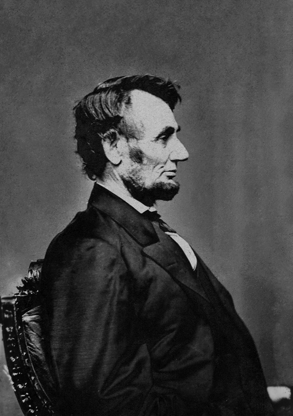 Profile of Abraham Lincoln. Used to model the Lincoln-head cent.